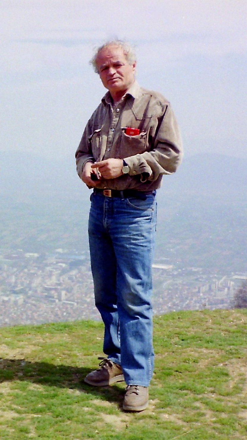 Macedonian Writer Mile Nedelkovski near Tetovo in Republic of Macedonia